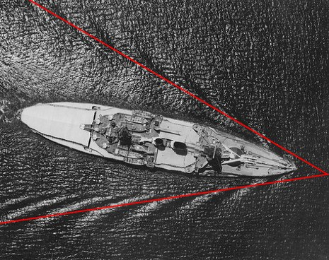 Schlesien (German Battleship, 1908) Photographed on 8 March 1938, while transiting the Panama Canal. U.S. Naval Historical Center Photograph. ==